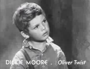 From the 1933 film Oliver Twist, a screenshot of Dickie Moore. I got it from